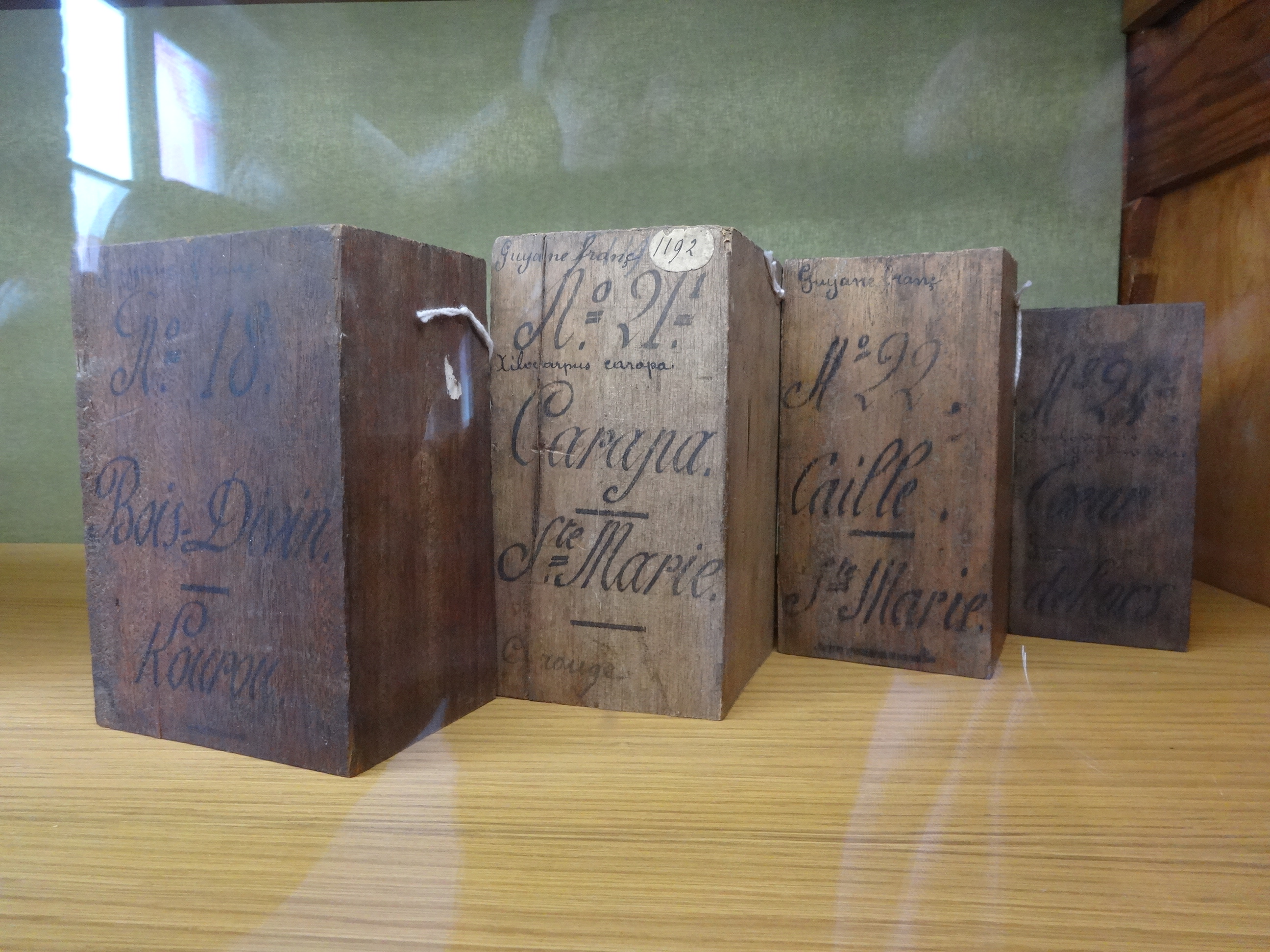 WOODlab, Meise Botanic Garden, old wood specimens from the xylarium